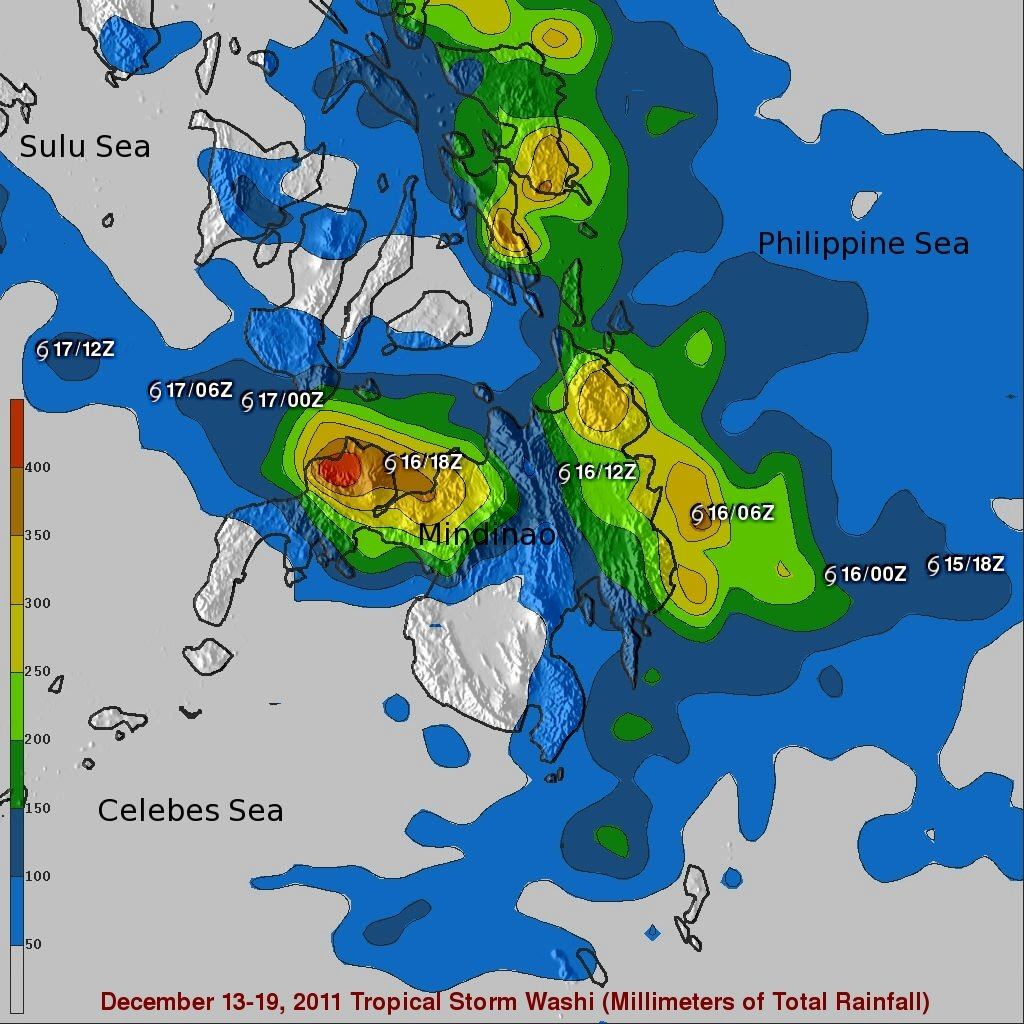 Rainfall estimates from the TRMM data are shown here for the period Dec. 13 to 20, 2011 for the southern Philippines. Storm symbols mark Washi's track. Rainfall totals are on the order of 200 to over 250 mm (~8 to 10 inches, shown in green and yellow) along Mindanao's east coast where Washi made landfall, but the highest amounts are along the northwest coast, where totals are on the order of 300 to over 400 mm (~12 to over 16 inches, shown in orange and red).